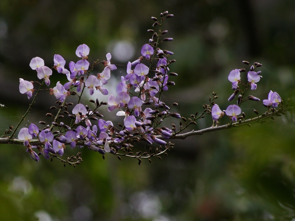 Millettia thonningii Fabaceae -(Papilionoideae) Deciduous tree growing to about 10 m. Purple flowers appear with young leaves. Native : Africa (Congo, Ghana, Nigeria), common name in Africa: Turburku Fruit (seedpod) can be seen in the photo below - is a dehiscent pod, 12-15 cm long and 18-25 mm broad, sharply beaked, cuneate at the base, glabrous, smooth, flat and woody, usually containing 3-6 discoid black seeds about 10 mm across. Location: Mt. Coot-tha Botanic Gardens, Brisbane, Australia